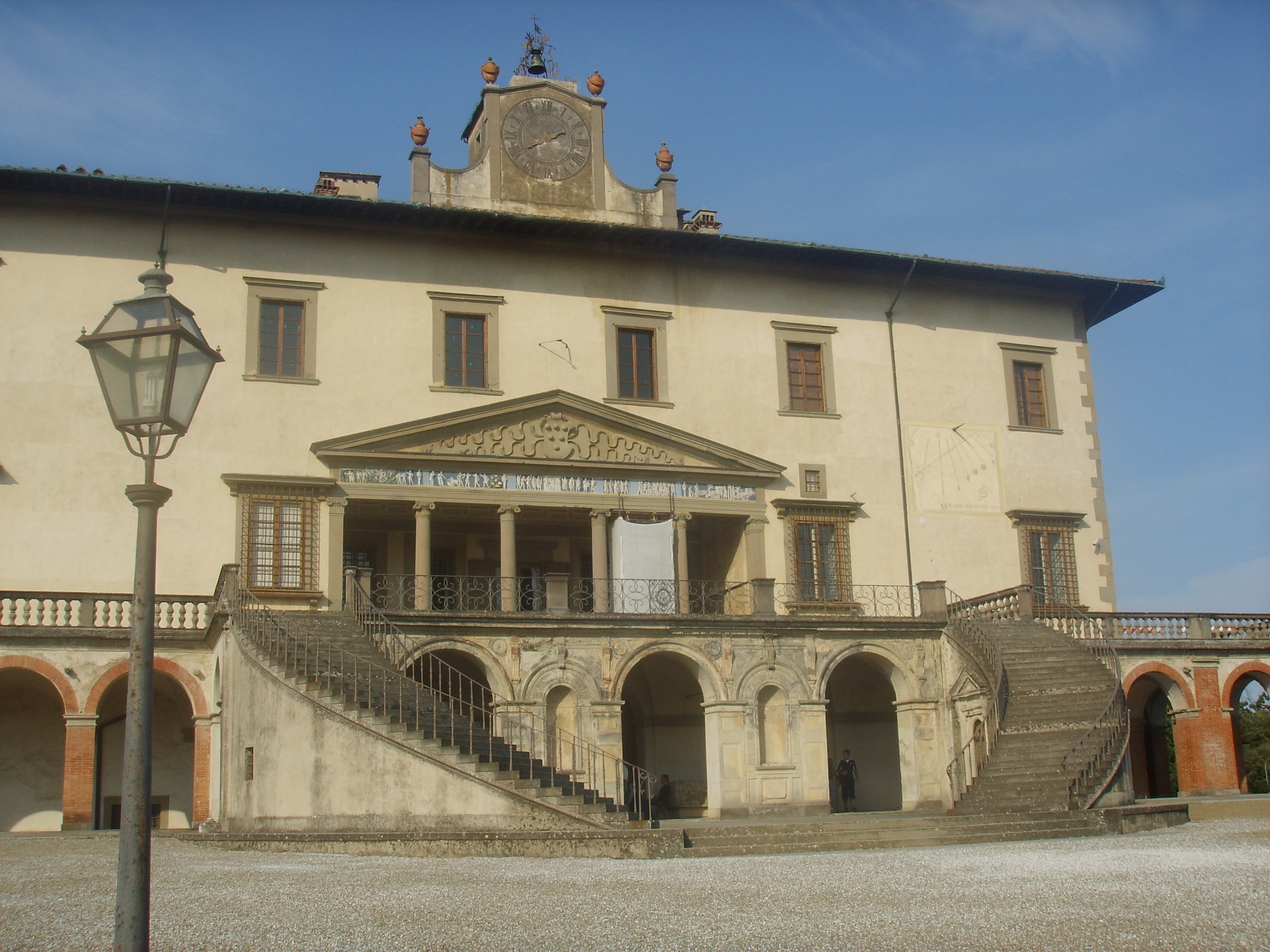 Villa in Poggio a Caiano, Italy, outside view.